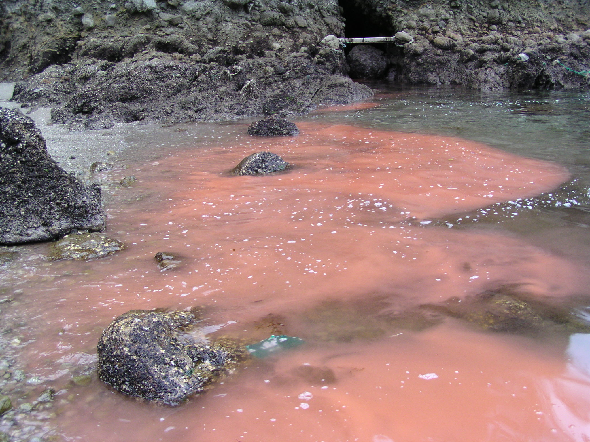 Algal bloom by Noctiluca in Isahaya Bay.